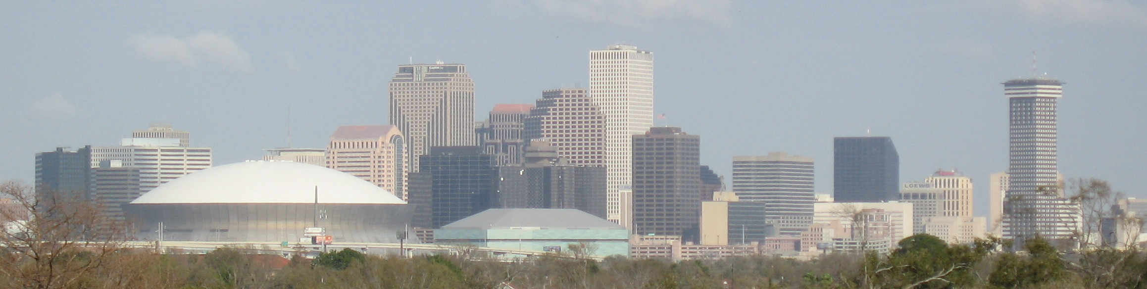 New Orleans, Louisiana Skyline from Tulane University parking garage, February 24, en:2007. Photo by VerruckteDan Category:New Orleans, Louisiana